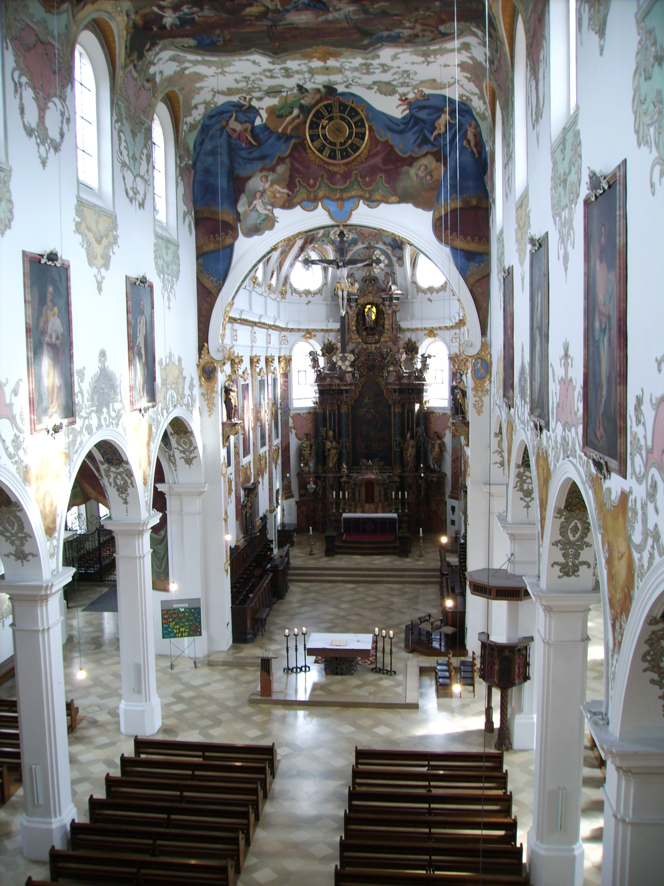 Saint Martin's Church in Biberach, Germany, view from the organ